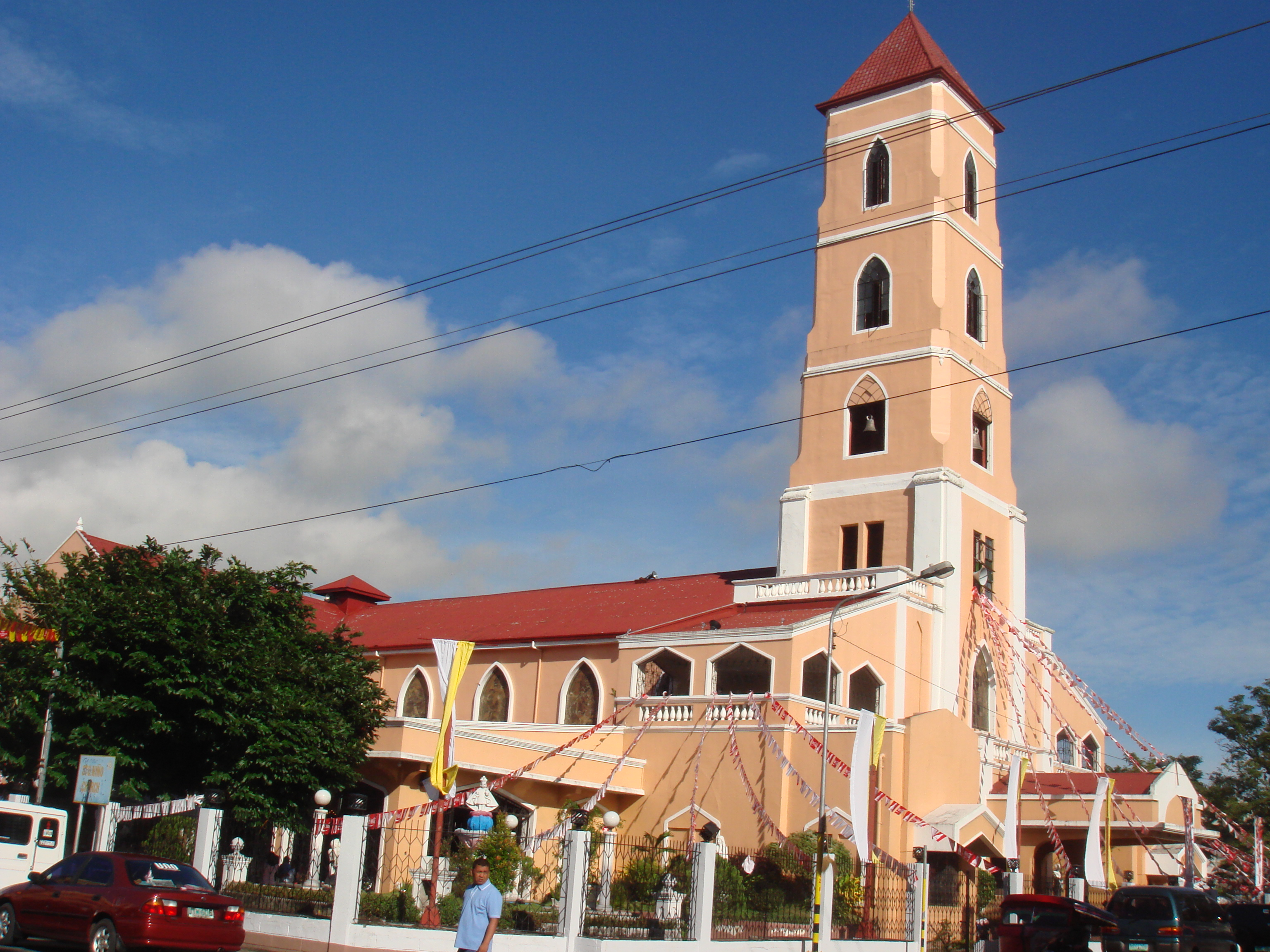 Santo Niño Church of Tacloban before it was destroyed by Typhoon Haiyan.